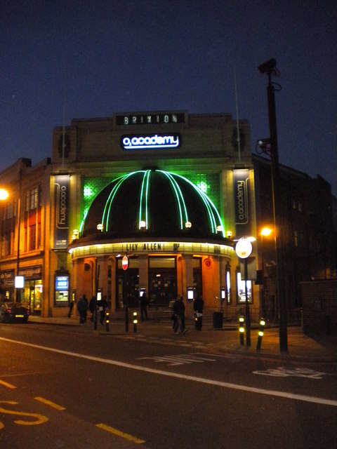 Brixton O2 Academy, Stockwell Road SW9